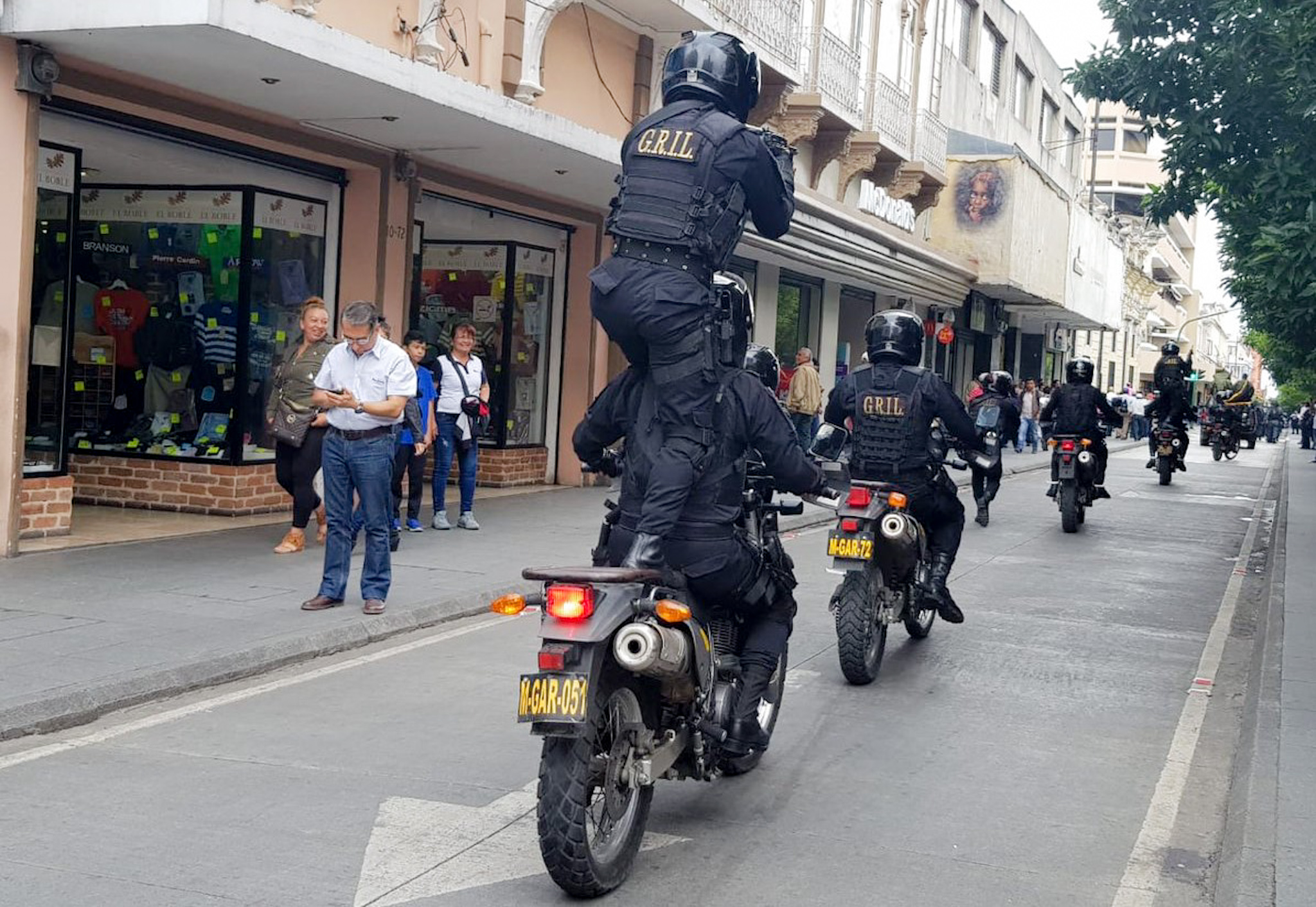 Lobos Gril PNC Guatemala